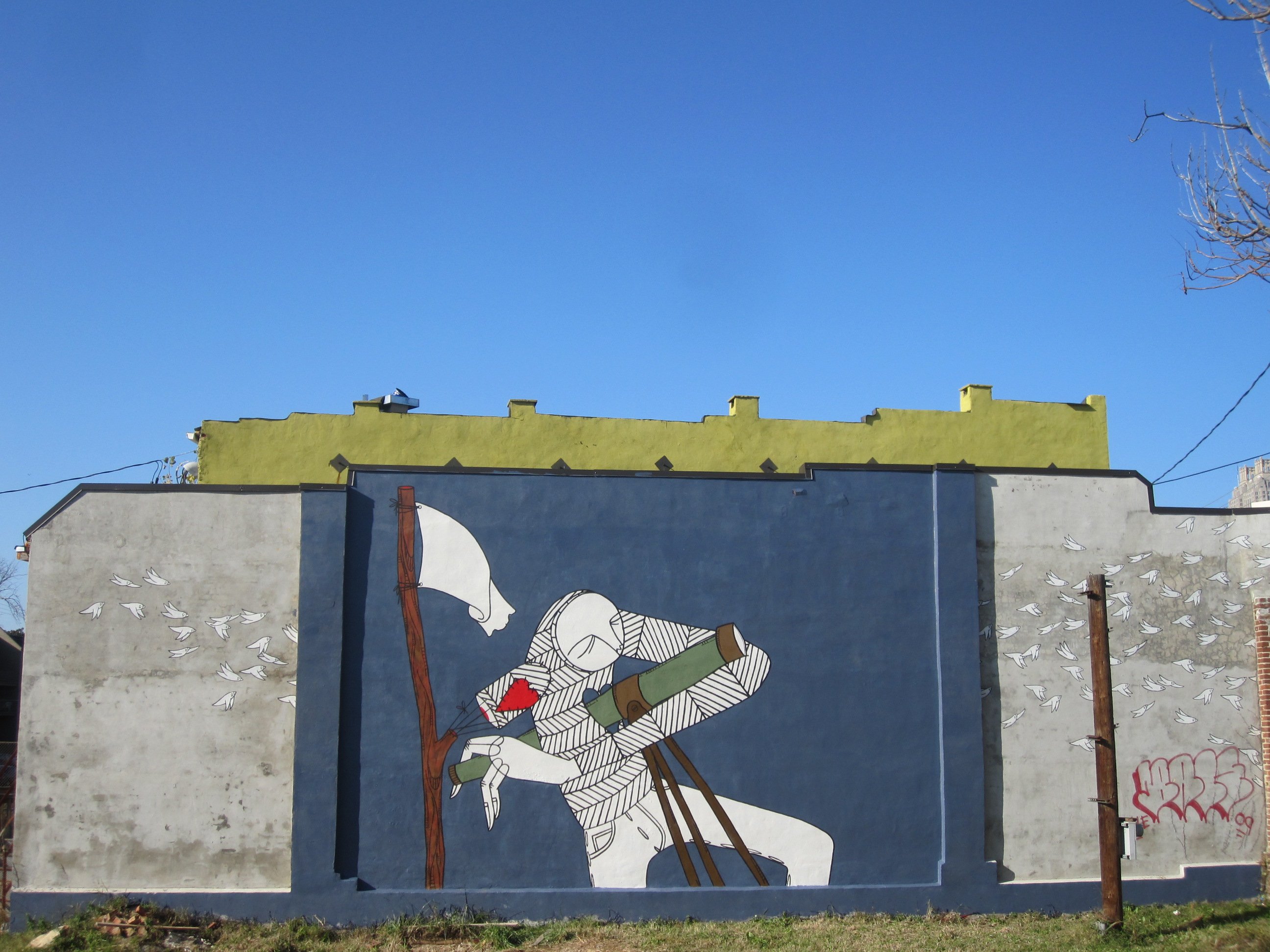 ‘Reflecting on Our Missings’, (Atlanta, USA), 2011